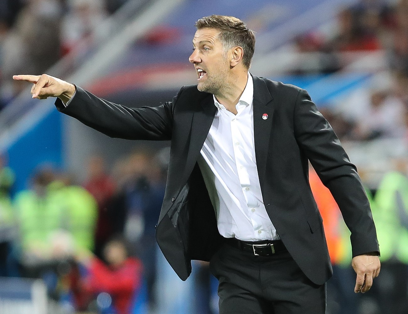 Mladen Krstajić